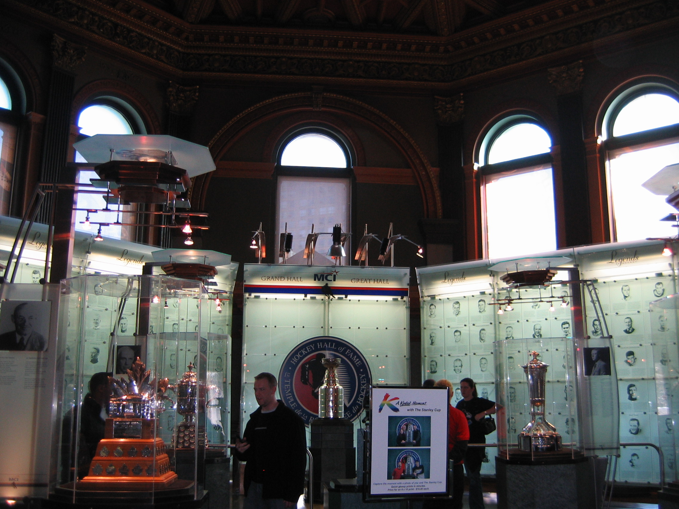 Great Hall at the Hockey Hall of Fame